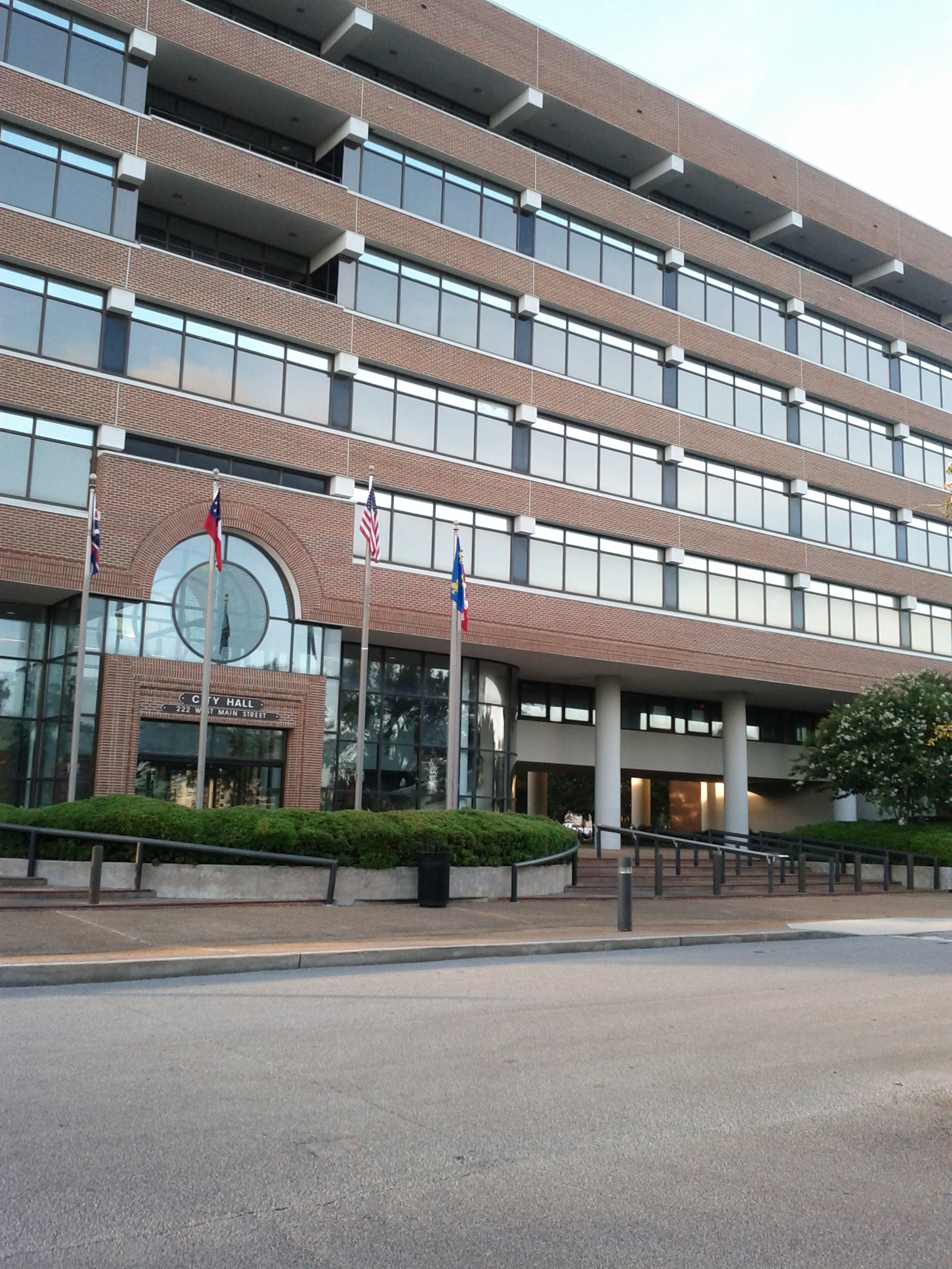 Pensacola City Hall located in Downtown Pensacola.